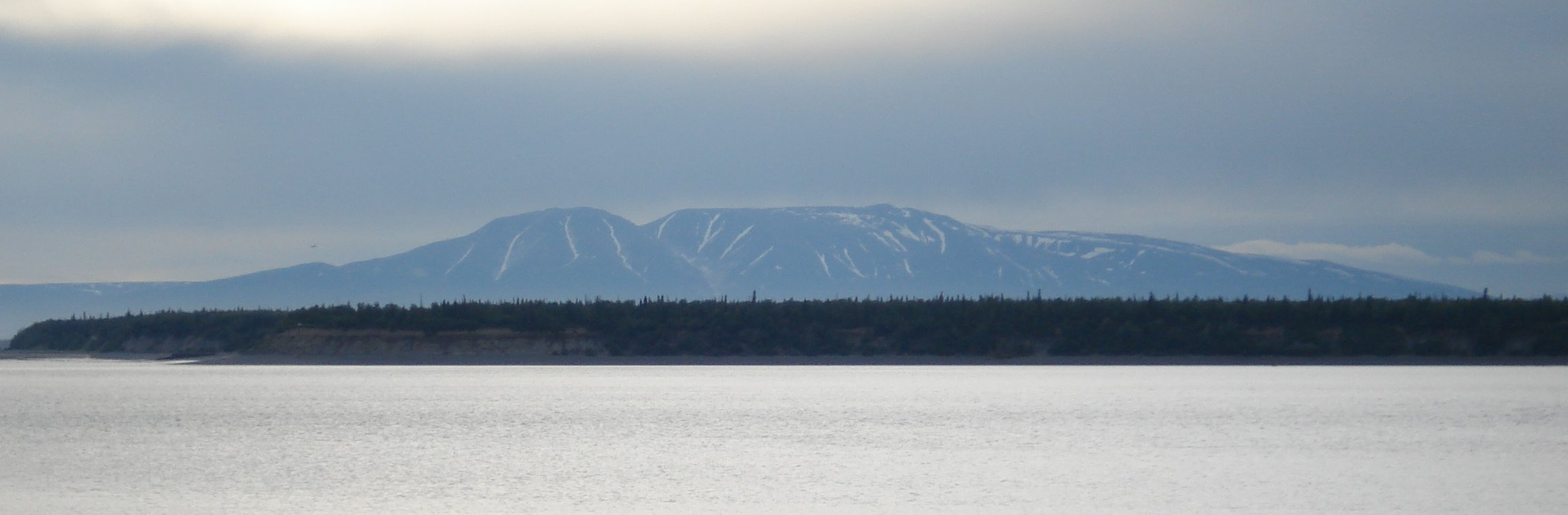 Mt. Susitna as viewed from the Tony Knowles Trail in Anchorage, AK. Looking across Cook Inlet.